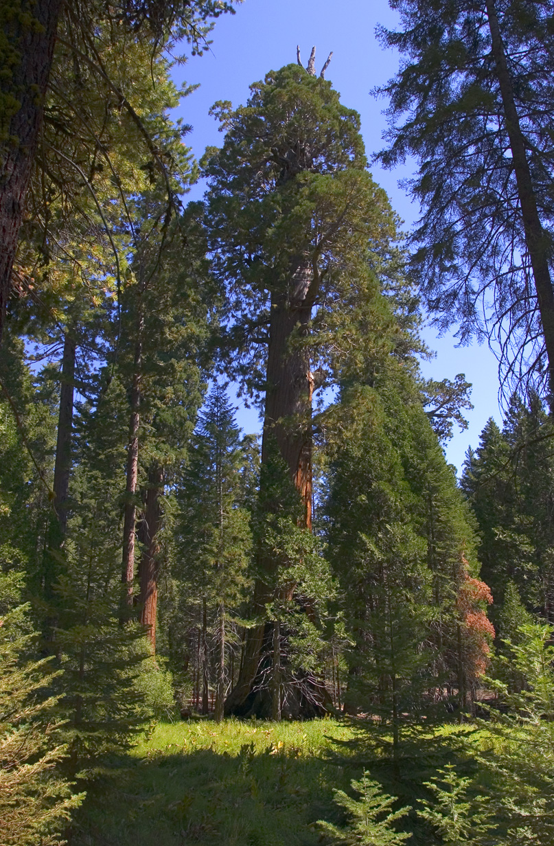 Giant Sequoia trees of Long Meadow Grove in Giant Sequoia National Monument.